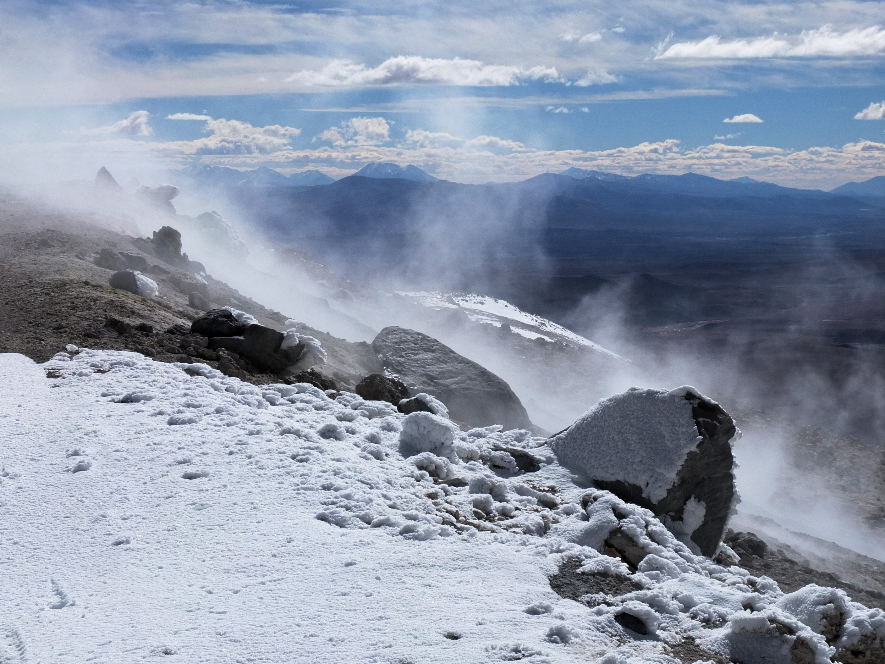 Fumaroles of the Uturuncu volcano at 5700 m, Bolivia 2013.